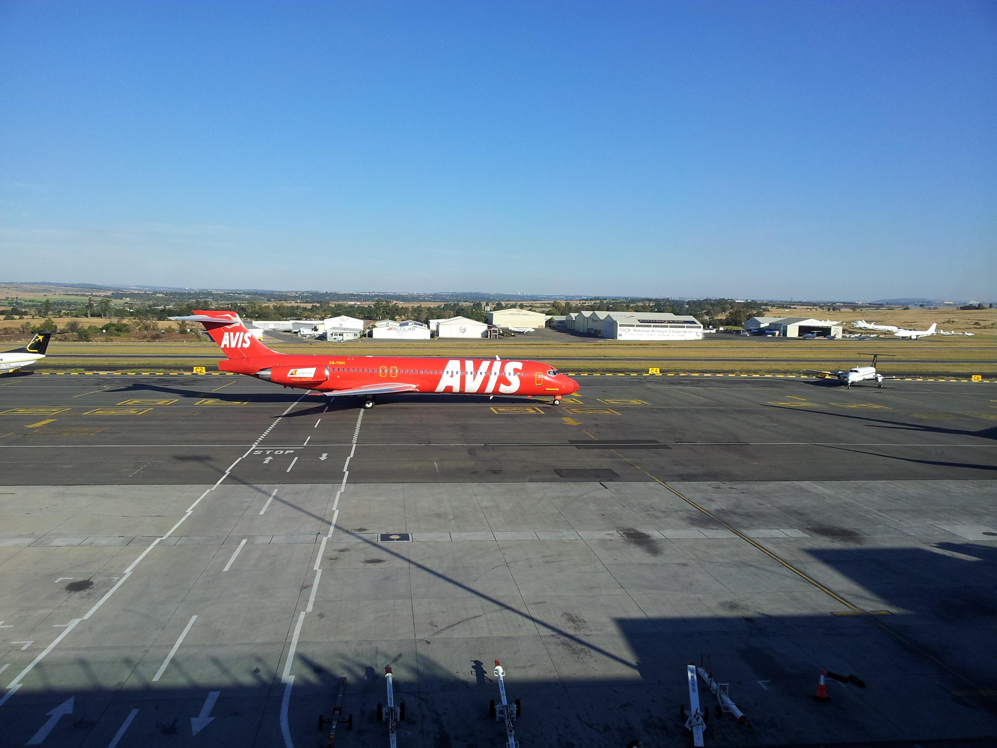 A OneTime Jet at Lanseria Airport, 06 April 2012.